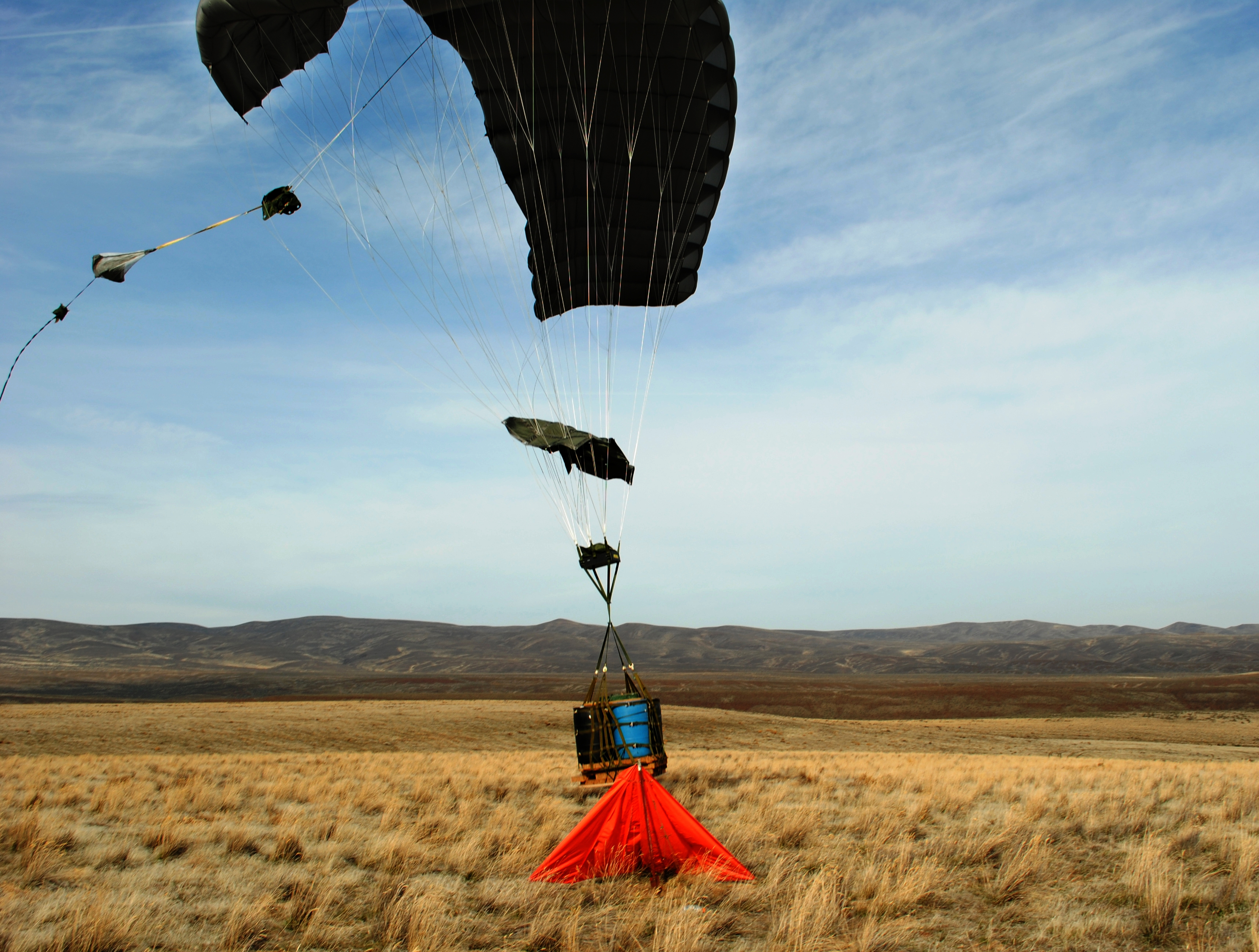 A Joint Precision Airdrop System (JPADS) bundle is dropped from a C-17 at Yakima Training Center and lands right next to its programmed target coordinates, as indicated by the orange marker.